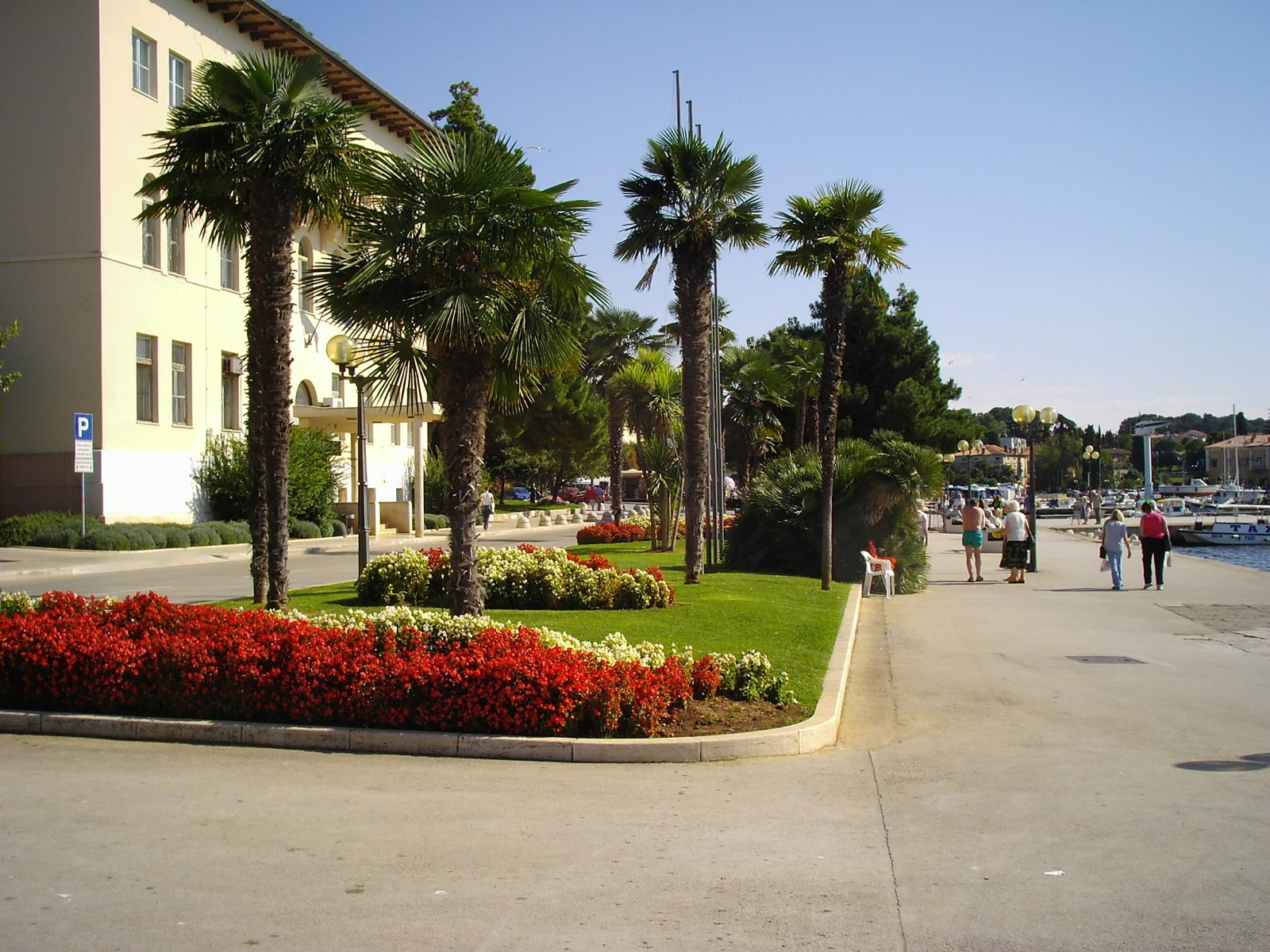 The port of Poreč, Croatia